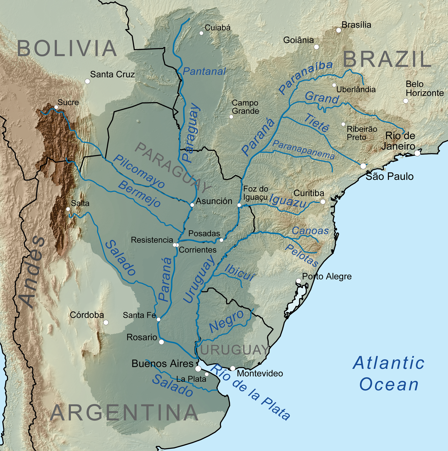 Map showing the Río de la Plata drainage basin including major tributaries and cities.